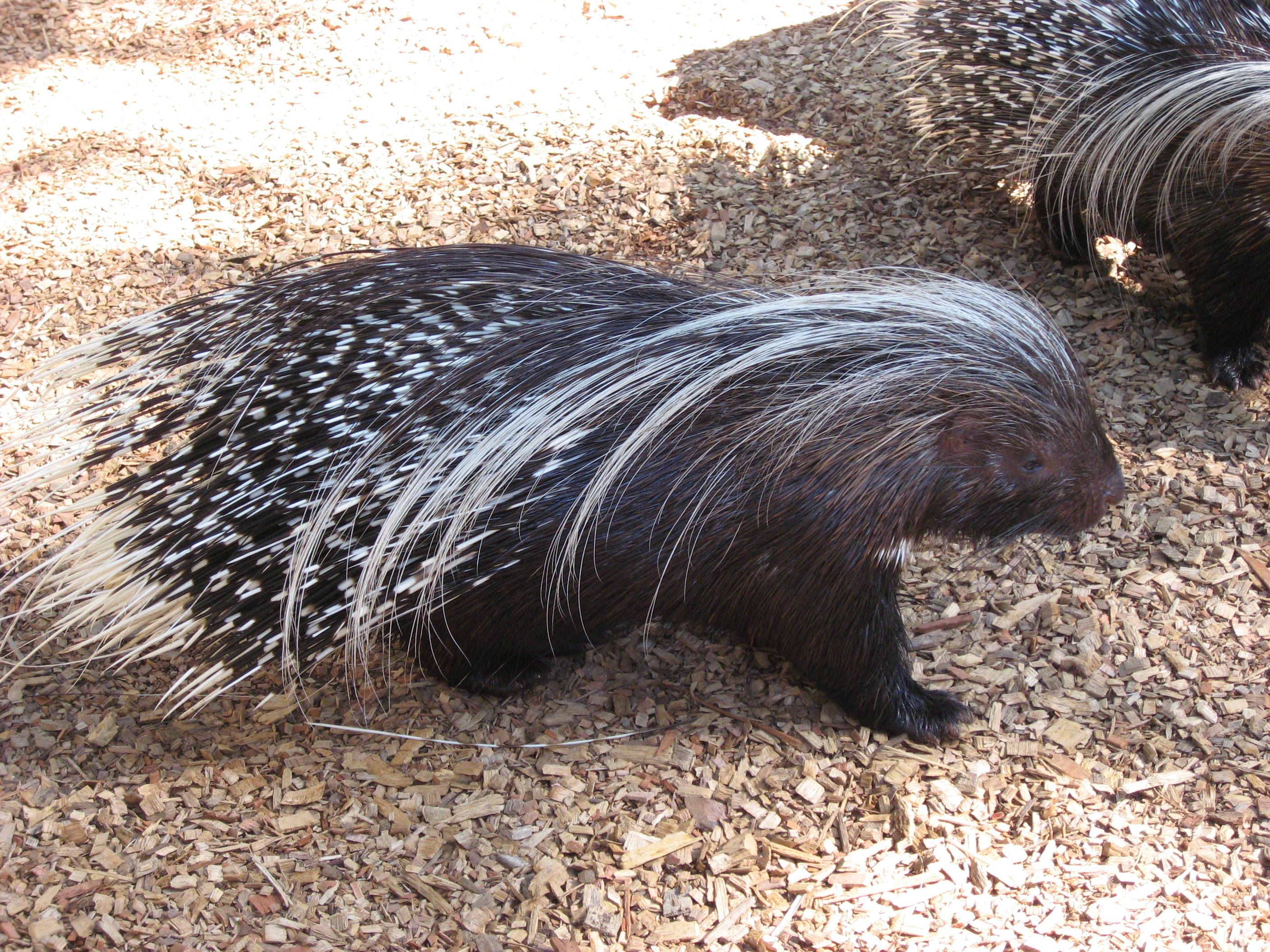 Hystrix cristata in Zoodyssée